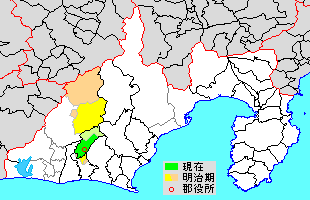 The location of Mori in Shizuoka Prefecture, Japan